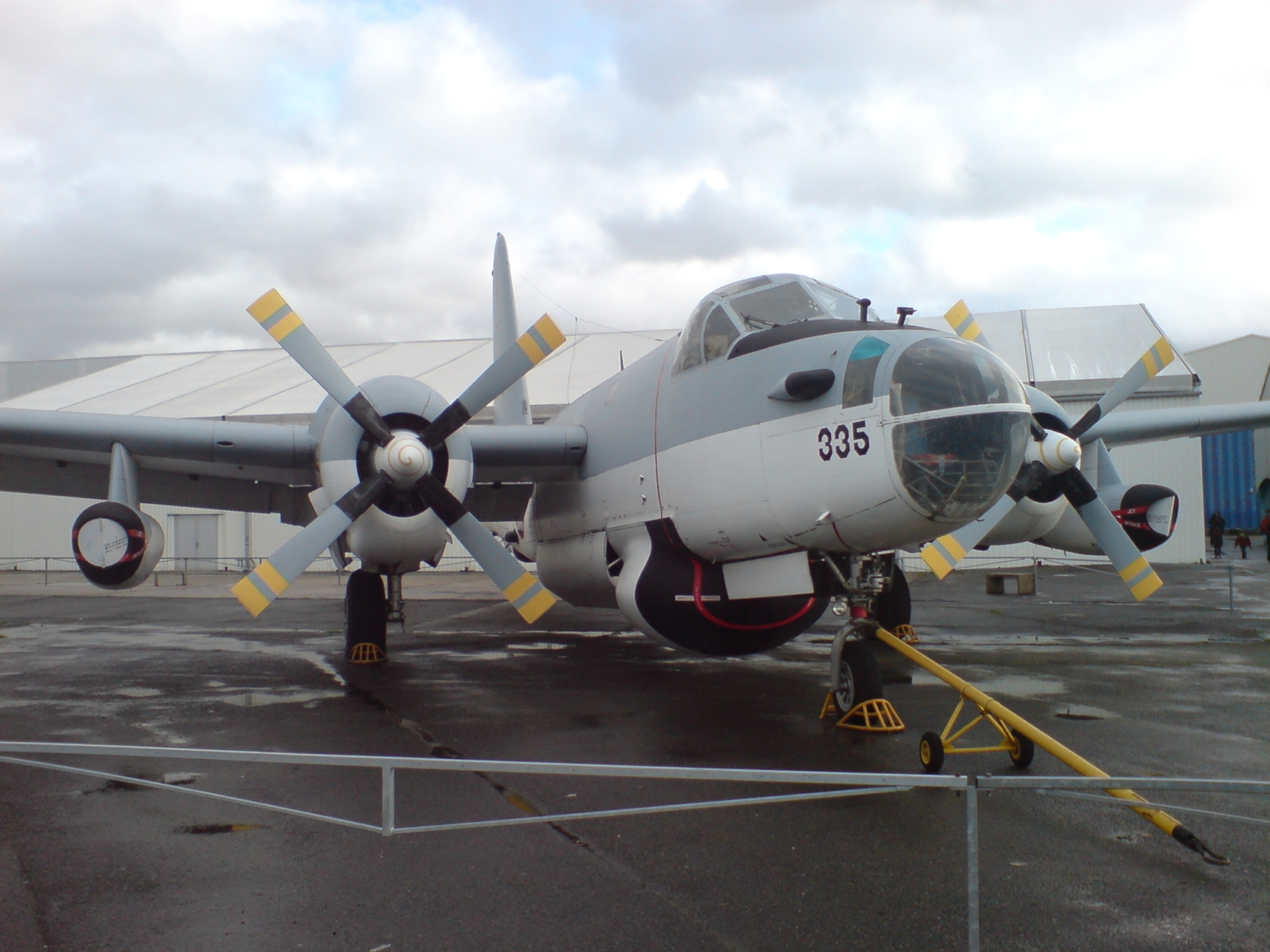 A former French Lockheed SP-2H Neptune (U.S. Navy BuNo 148335, c/n 726-7264) at the Musée de l'Air et de l'Espace aerospace museum in Paris, France. It wears the markings of Flottille 25F which operated the Neptune from 1958 to 1983 from Base d'aéronautique navale de Lann-Bihoué near Lorient, France. Looking roughly north.